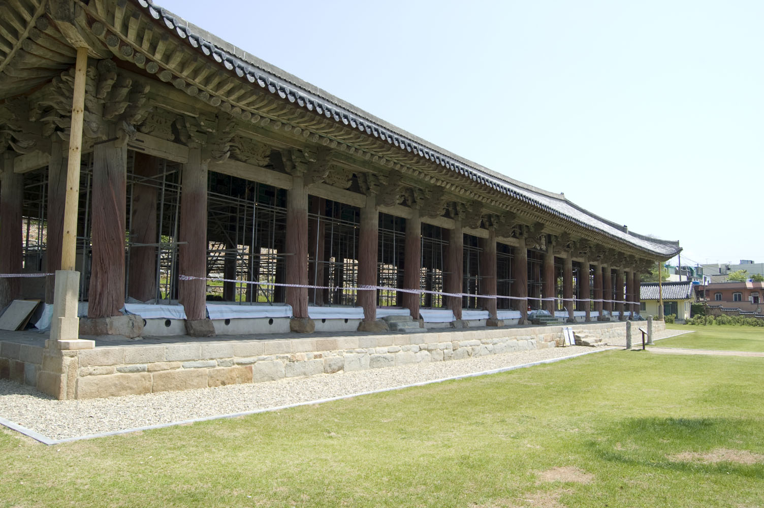 Jinnamgwan during the renovation